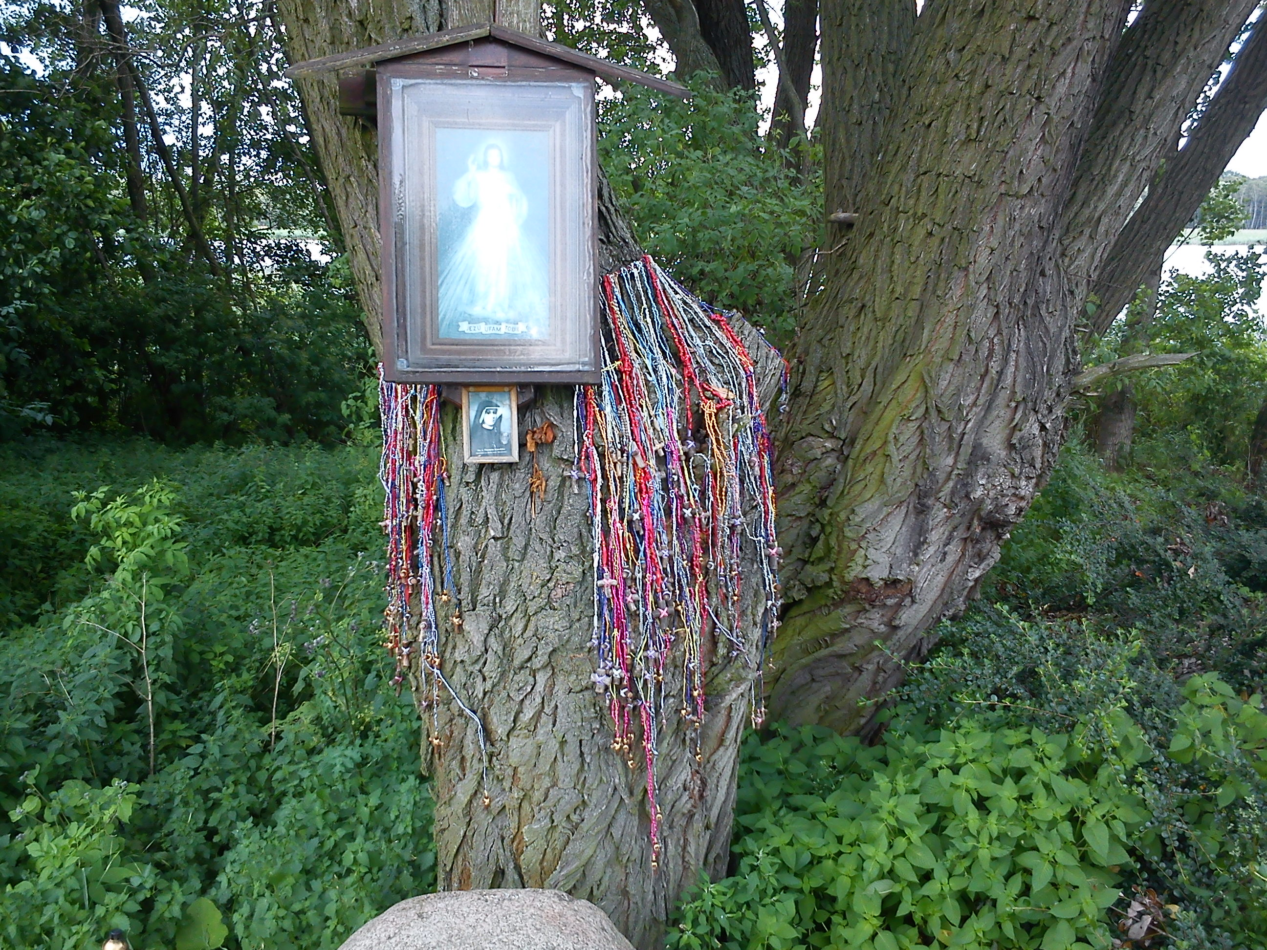 Faustyna Kowalska Way in Kiekrz.